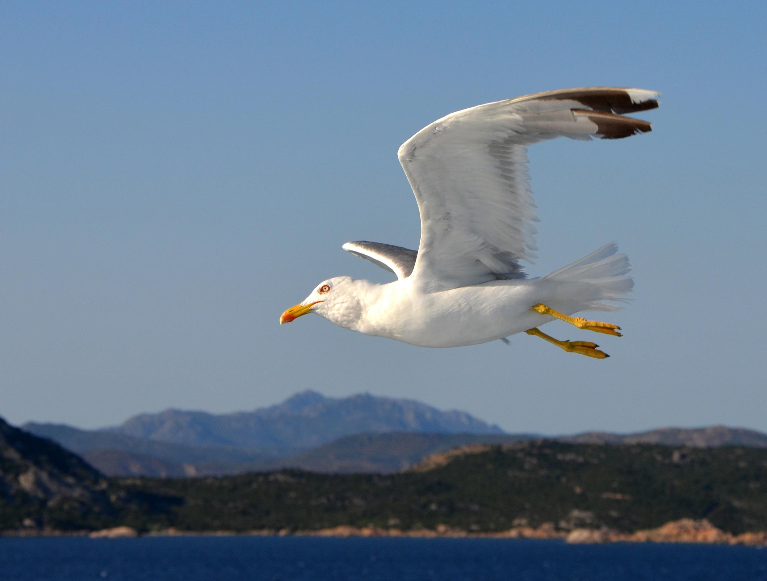 Yellow-legged Gull (Larus michahellis) following a ferryboat in the Gulf of Olbia (Sardinia, Italy).